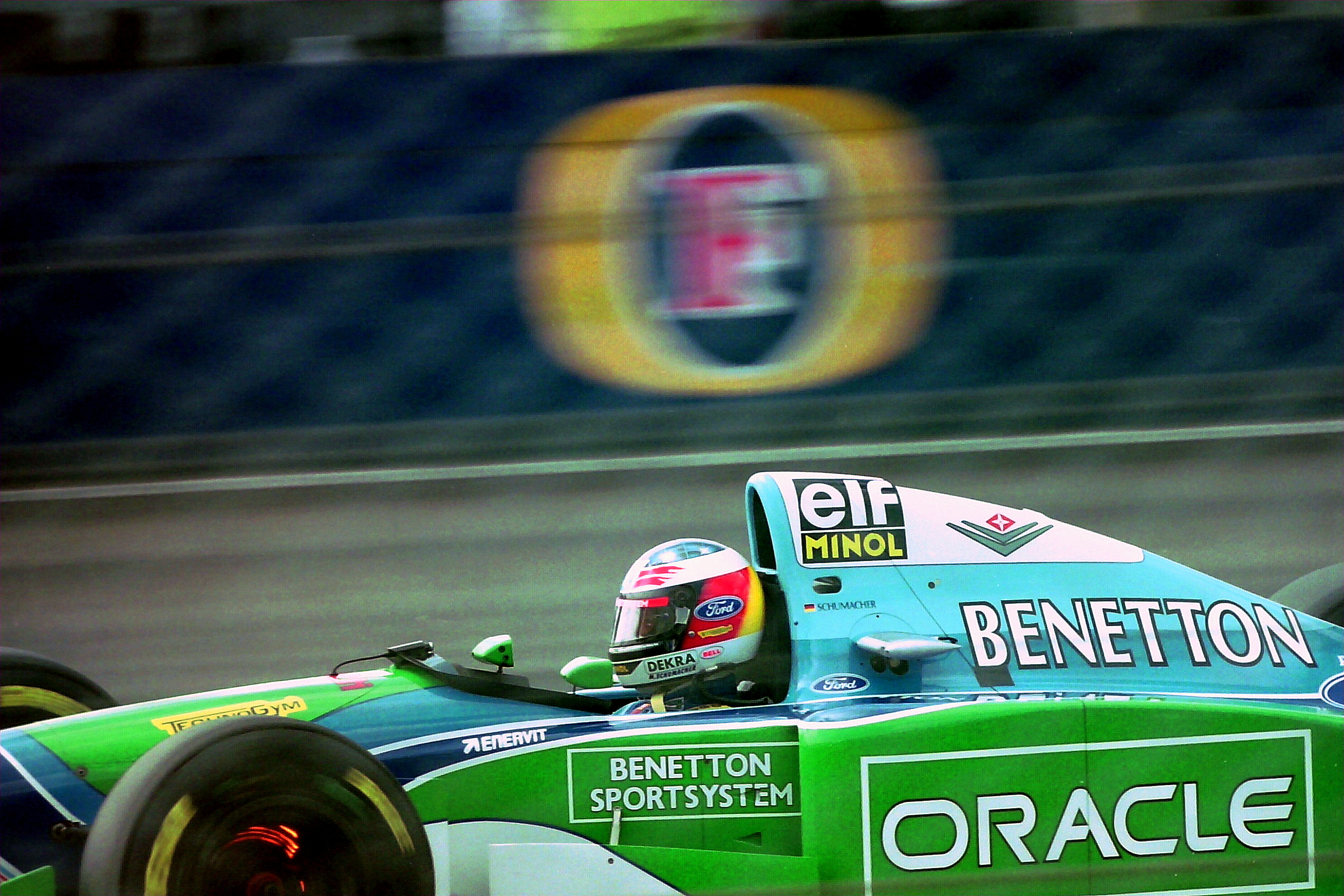 Michael Schumacher- Benetton 194 at the 1994 British Grand Prix